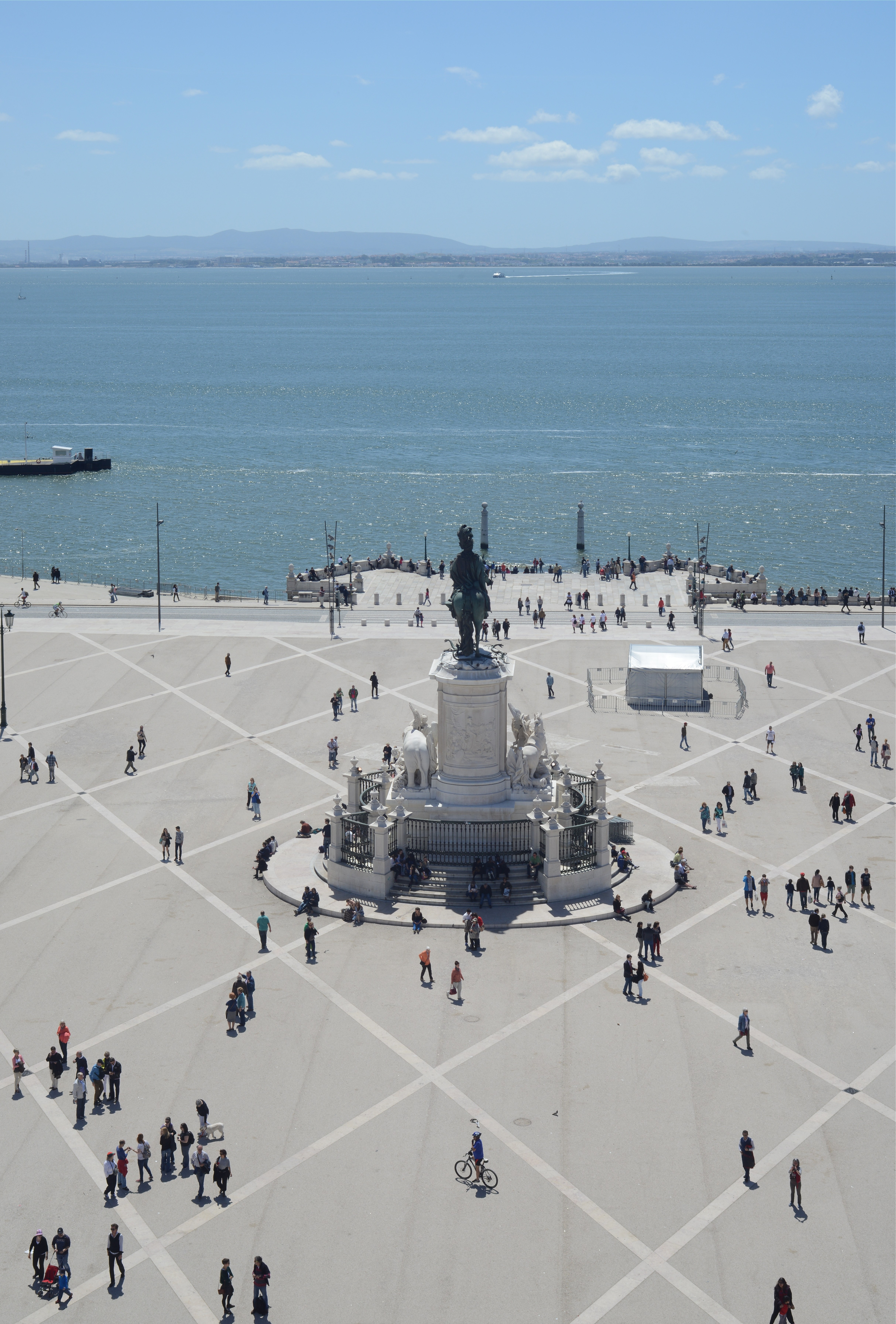 Praça do Comércio and statue of King D. José I of Portugal, viewed from the top of Rua Augusta Monumental Arch Lisboa, Portugal